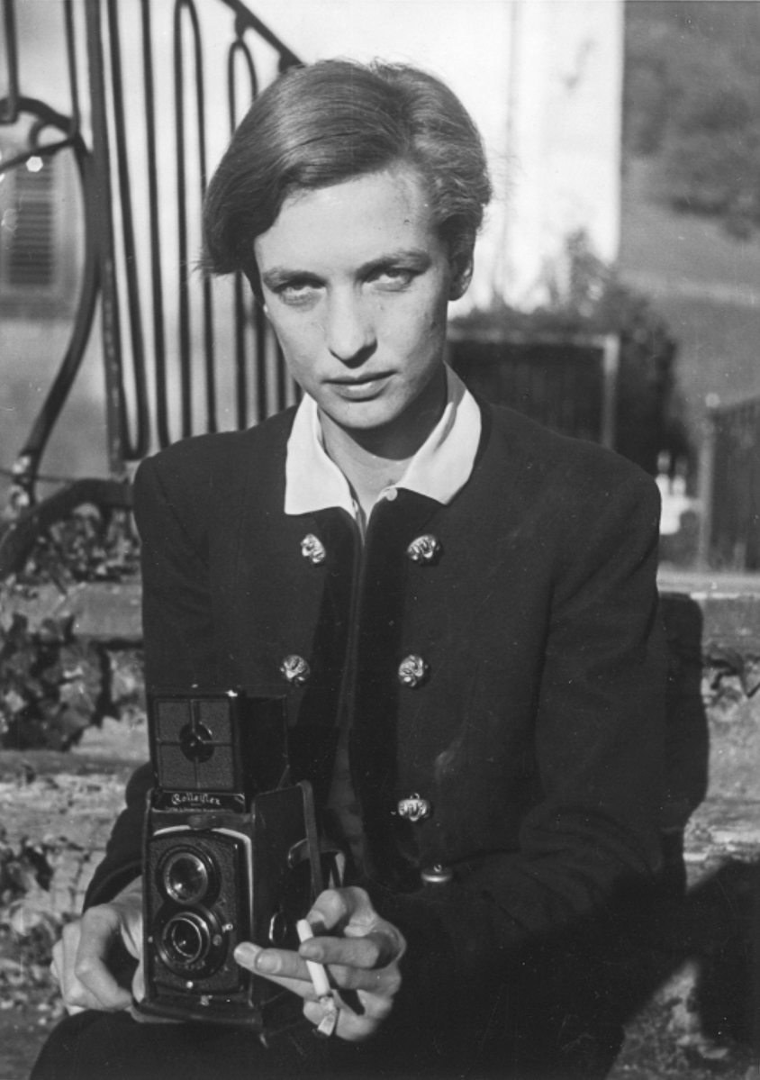 Annemarie Schwarzenbach - Self-portrait using a Rolleiflex Standard 621 camera.